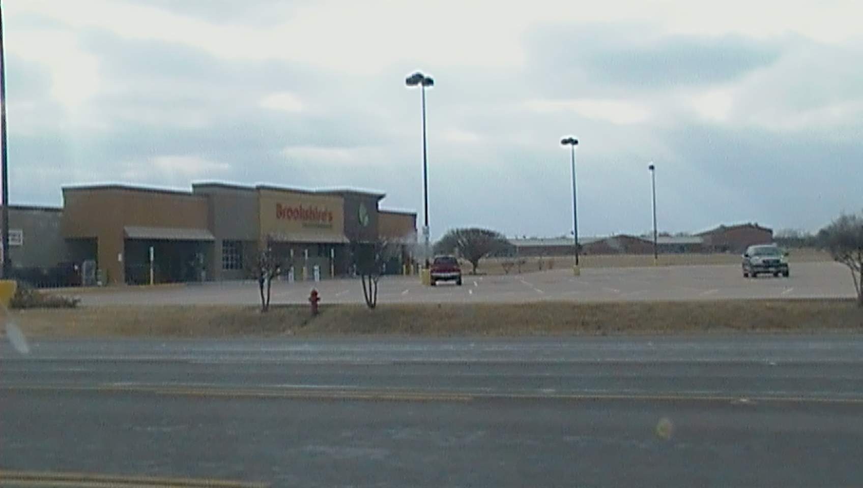 Brookshire's Pharmacy in Robinson, Texas.